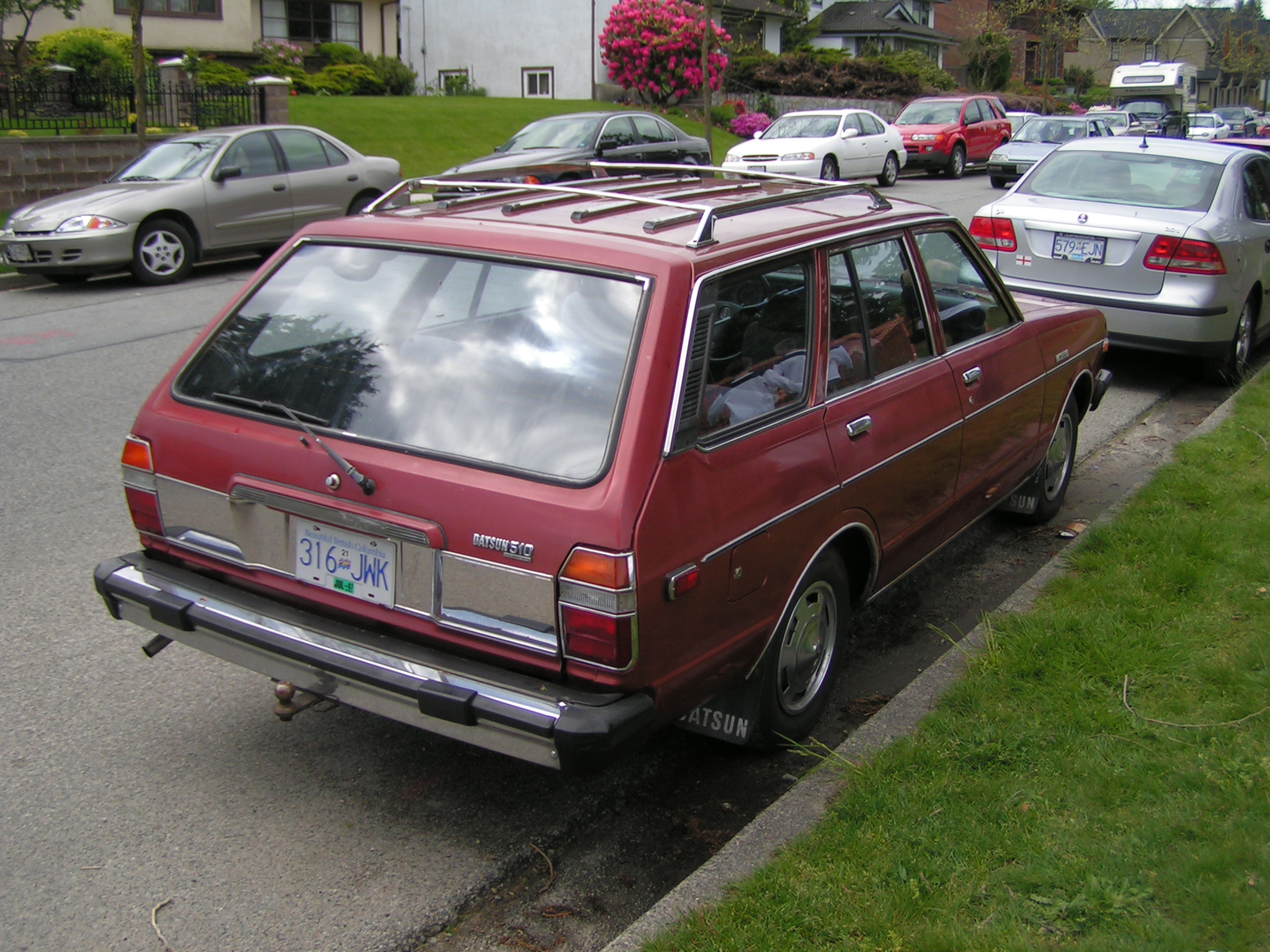 A well preserved Datsun 510 wagon (US label for A10-series Datsun Violet) - this one is either a 1980 or 1981. The earlier ones had round headlamps. In 1980 the 510 got the Z20S engine or the Z20E engine with fuel injection.